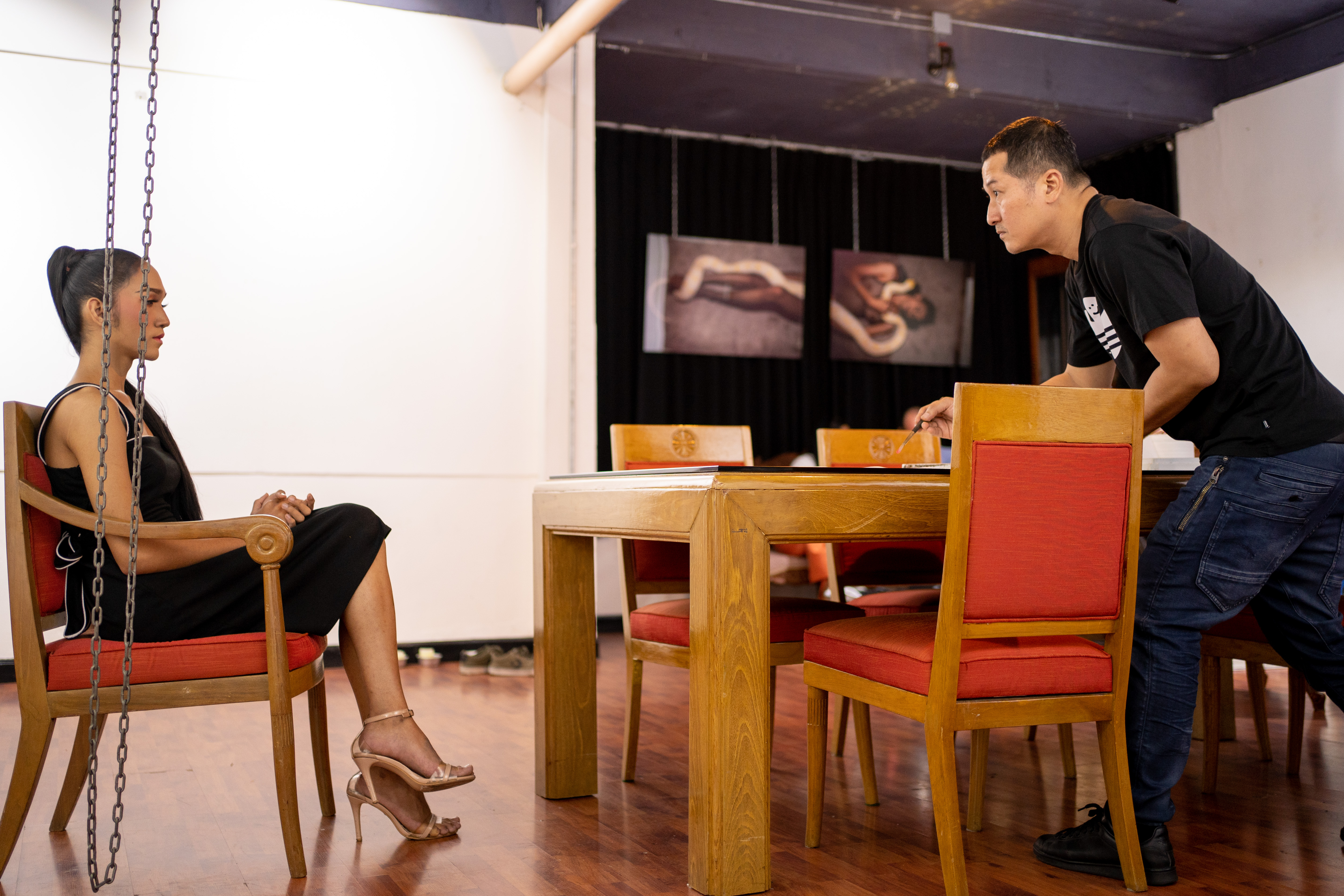 Tawan Wattuya paints a subject for his Patpong Museum exhibition at the Candle Light Studio.